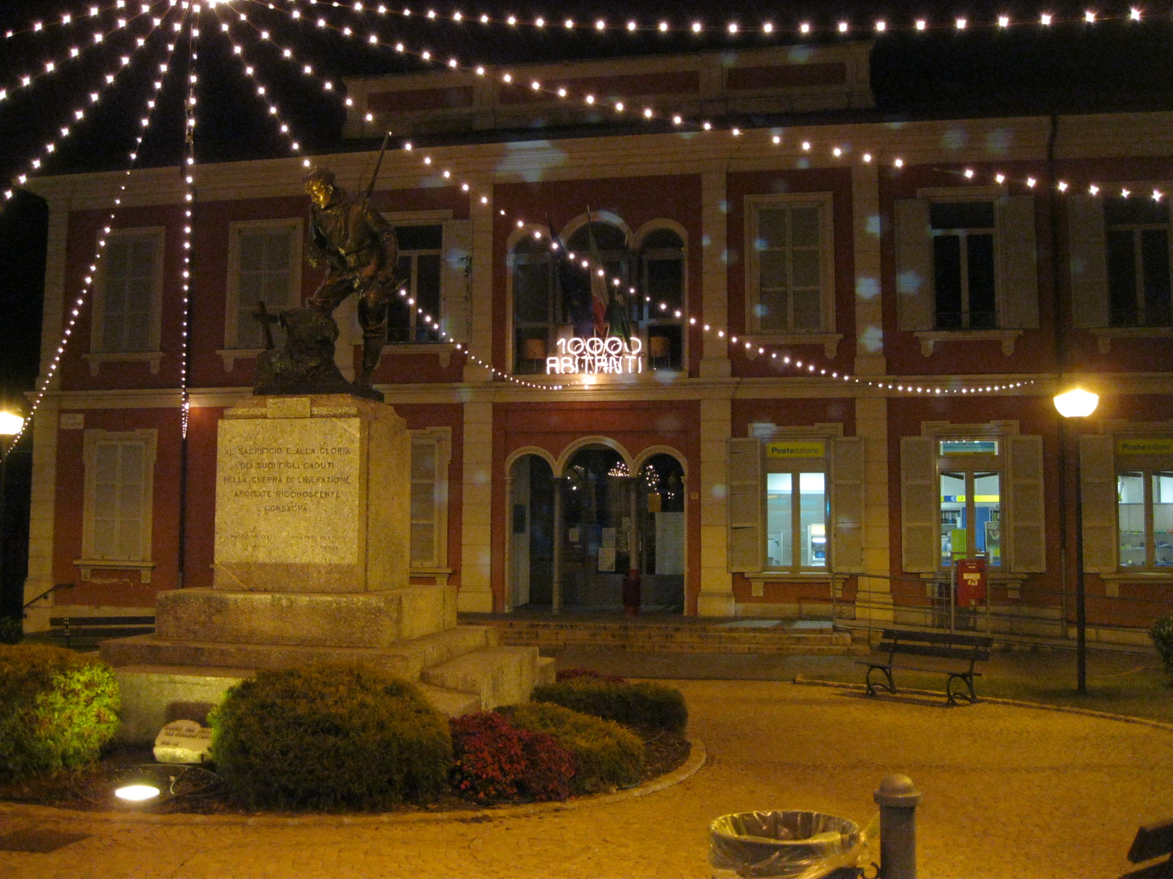 Lights in Arcisate celebrating the reach of ten thousands inhabitants in winter 2011.